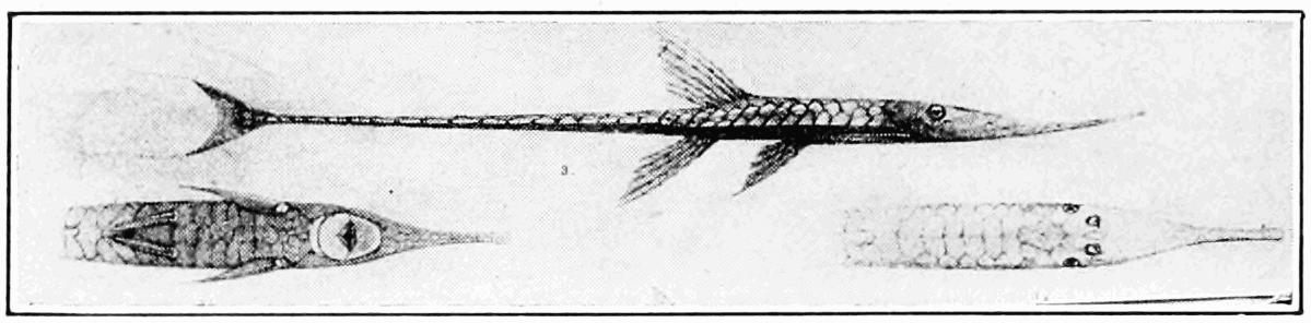 Farlowella one of the slenderest of the mailed catfishes